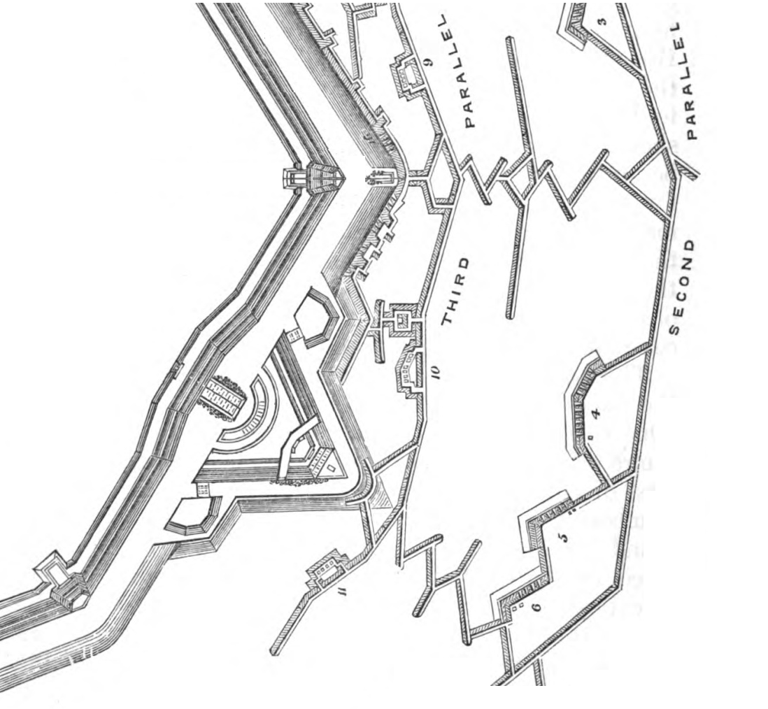 "Plan exhibiting the process of attack on two fronts of fortification". A diagram showing the method of approaching an enemy fort using saps and parallels, published in 1859.